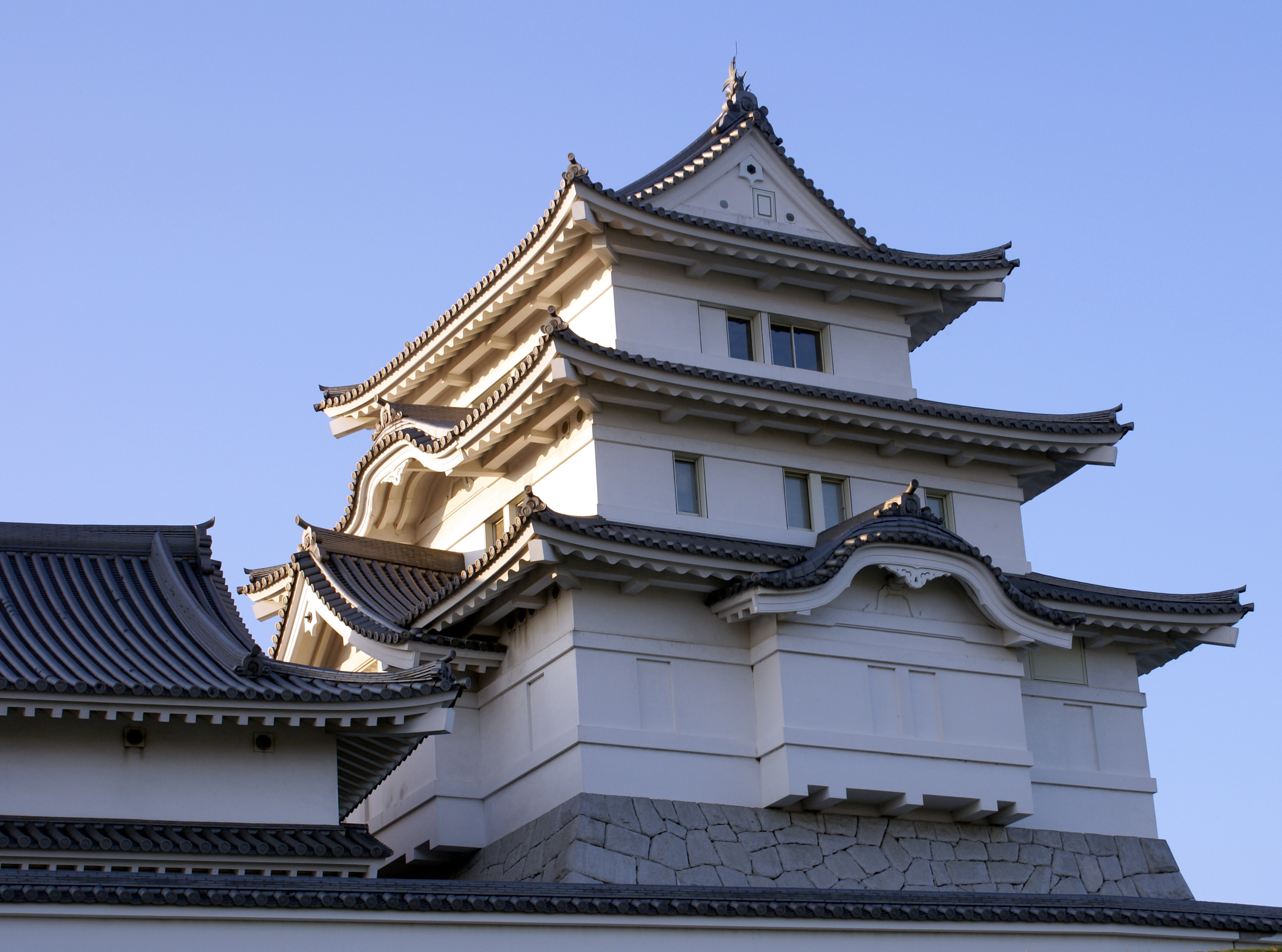 Sekiyado Castle Museum in Ciba, Japan.